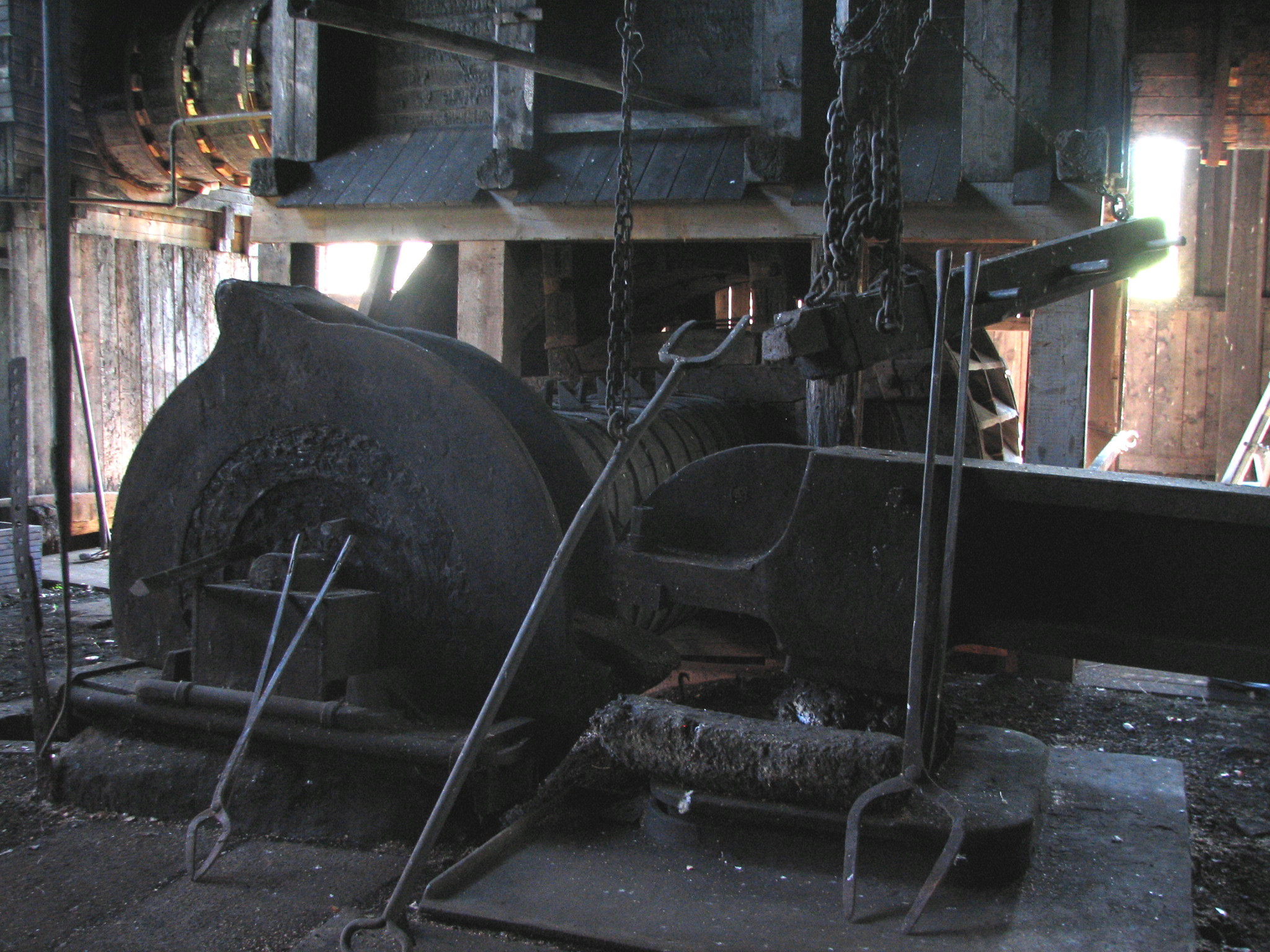 Trip hammer at Strömbacka, Hälsingland, Sweden